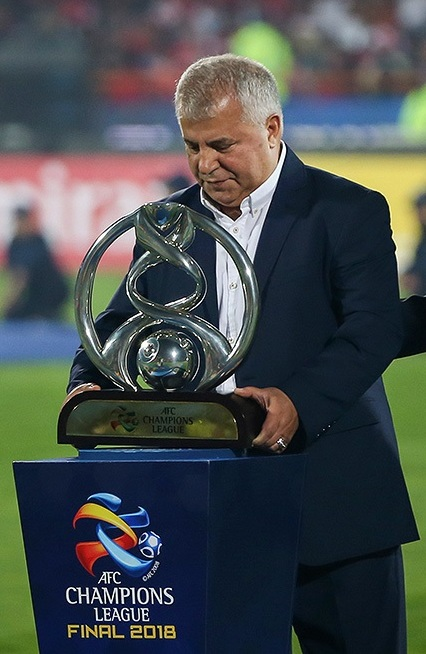 Persepolis FC v Kashima Antlers (0-0), 2018 AFC Champions League Final, Second leg, 10 November 2018